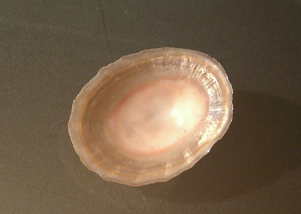 Cellana flava (Hutton, 1873), a limpet from the family Nacellidae; New Zealand